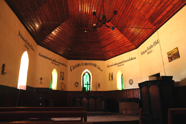 Rhenish Missionary Church (architect: Eduard Hälbich, foundation in 1865 by missionary Hugo Hahn, Inauguration 1867) in Otjimbingwe Namibia, national Monument